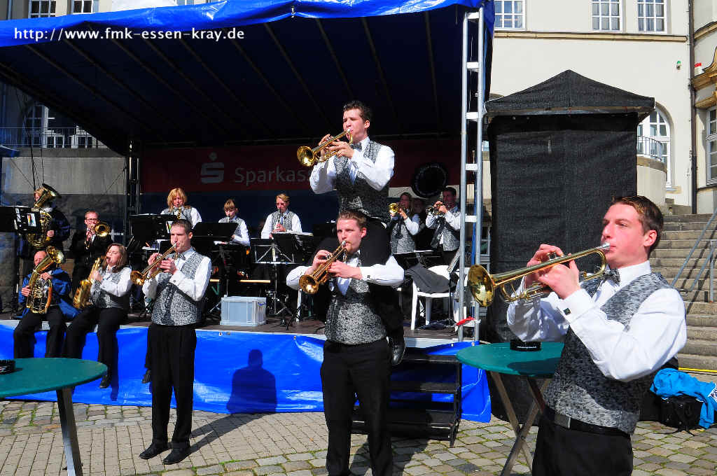 FMK on Rathaus Kray, Essen, Germany